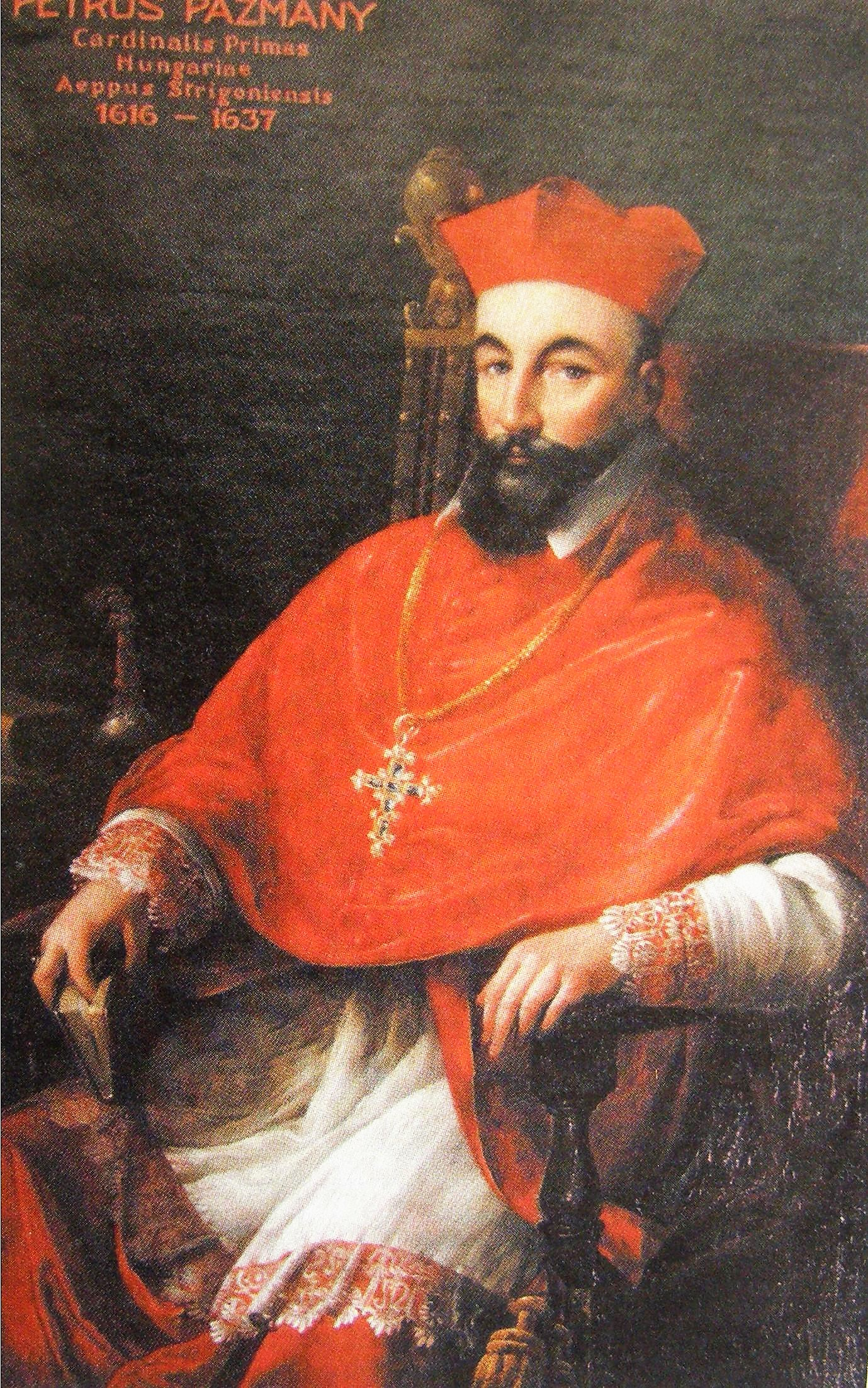 Portrait of Péter Pázmány (1570-1637)